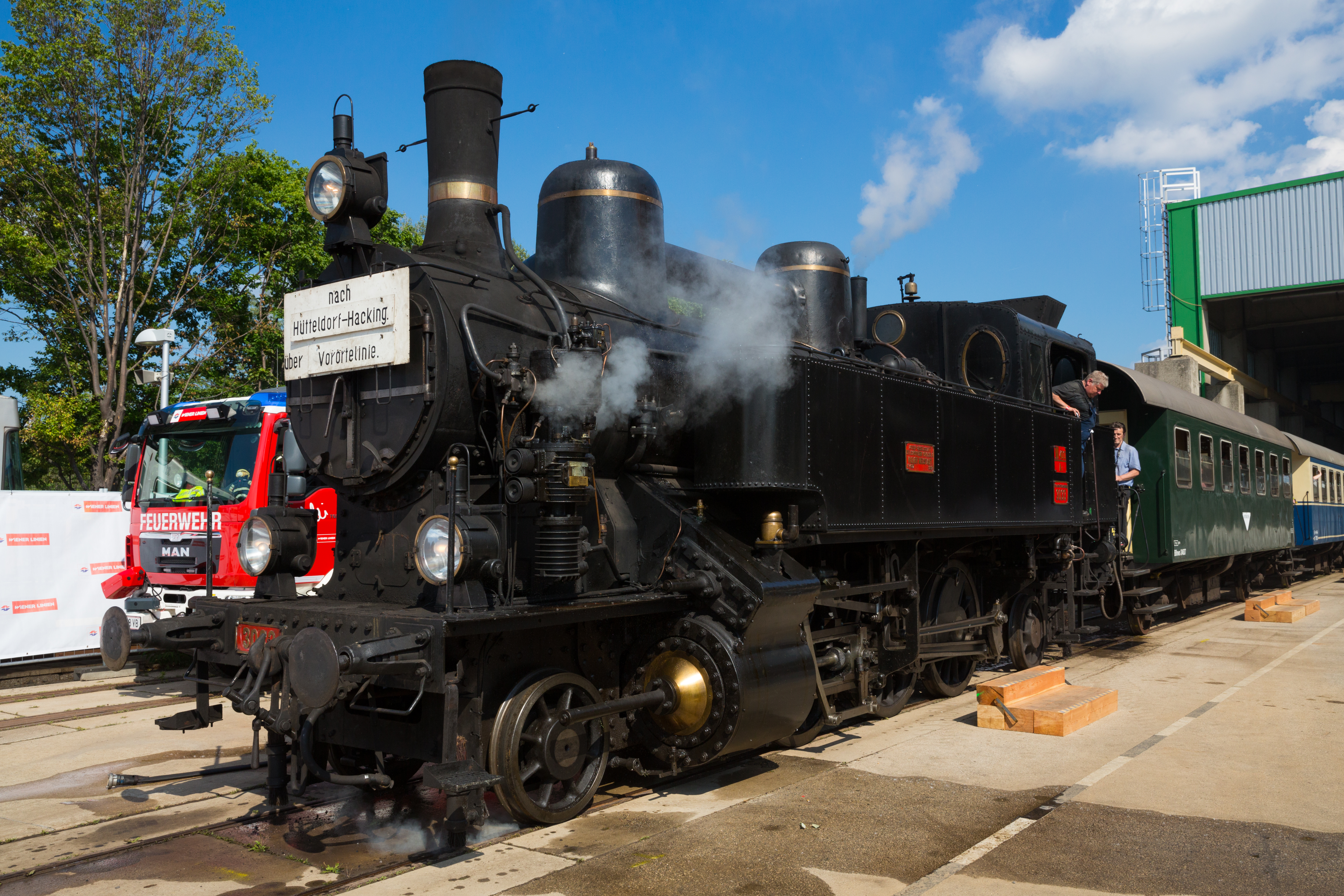 Steam engine 3033 on the earea of the Erdberg metro depot.